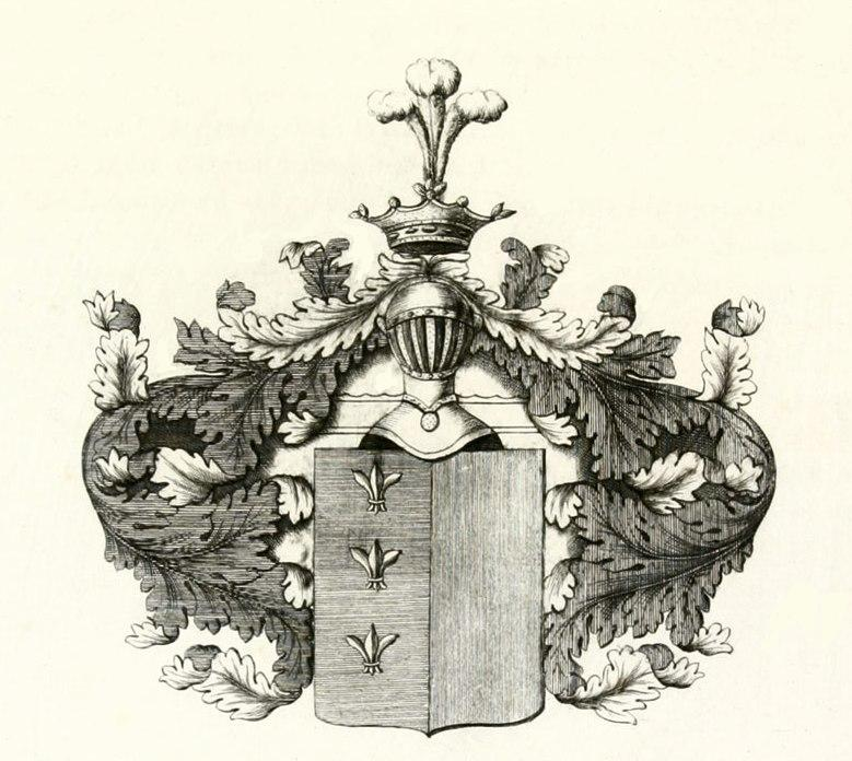 This (more than) 200 years old image has been reformatted, so it became a personal creation, with no rights attached